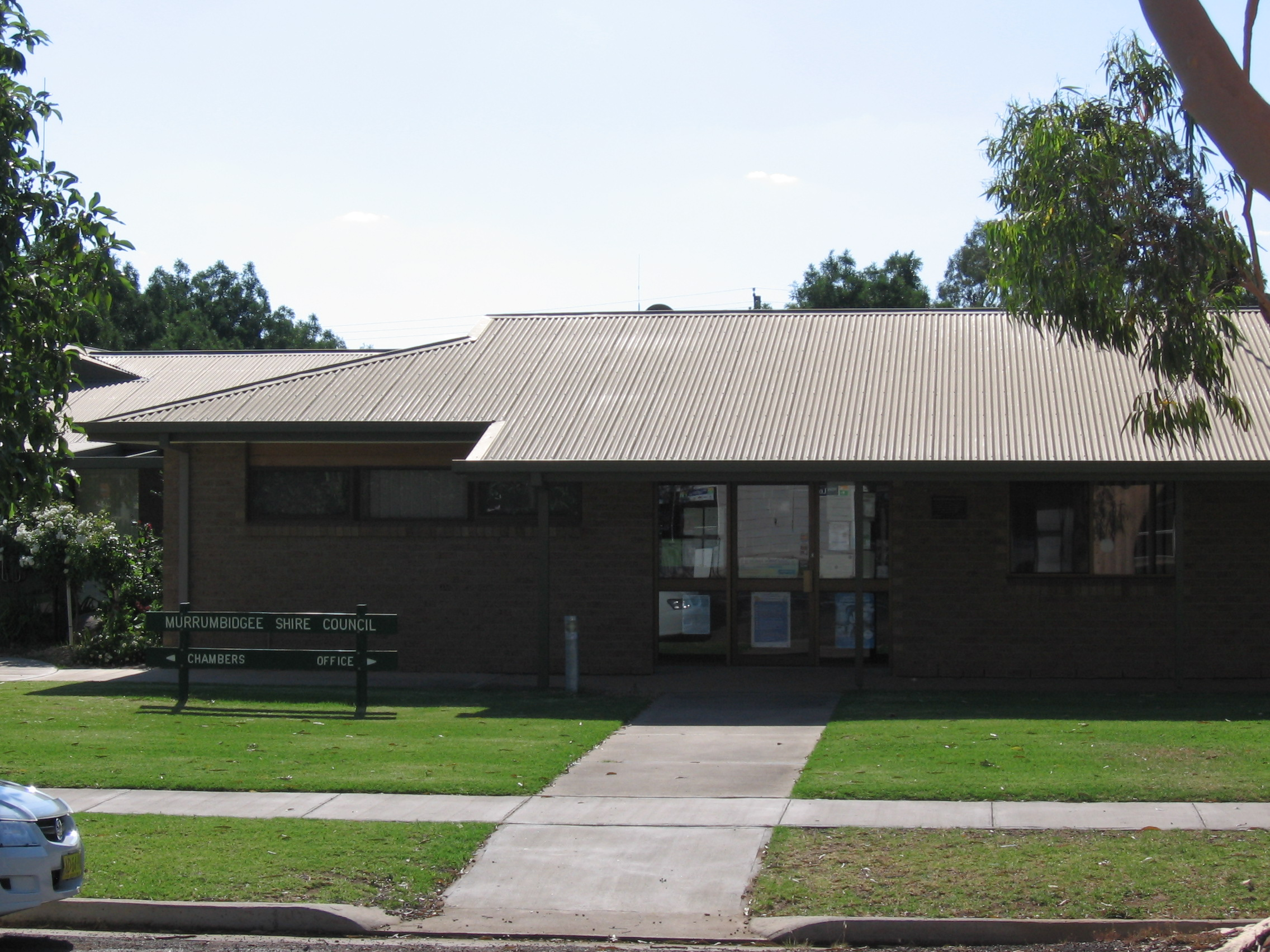 Murrumbidgee Shire Council office at Darlington Point, New South Wales